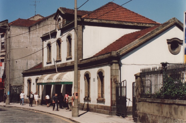 Boavista station in 1994